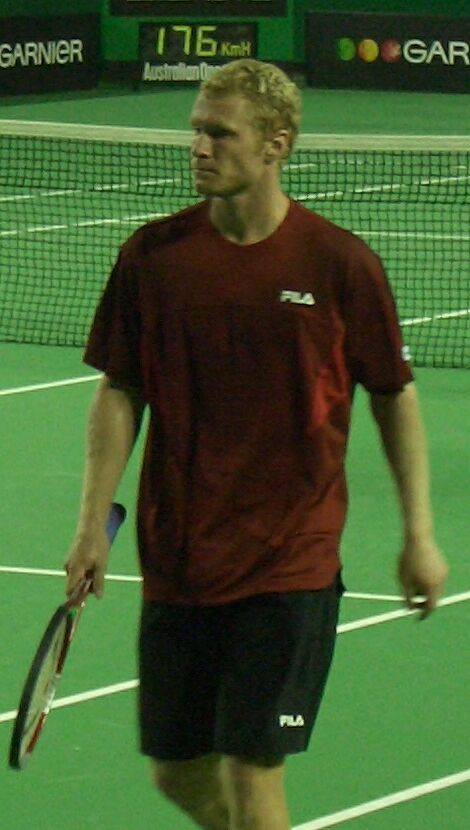 Dmitry Tursunov during his first-round match at the 2006 Australian Open against Tim Henman. Tursunov won.